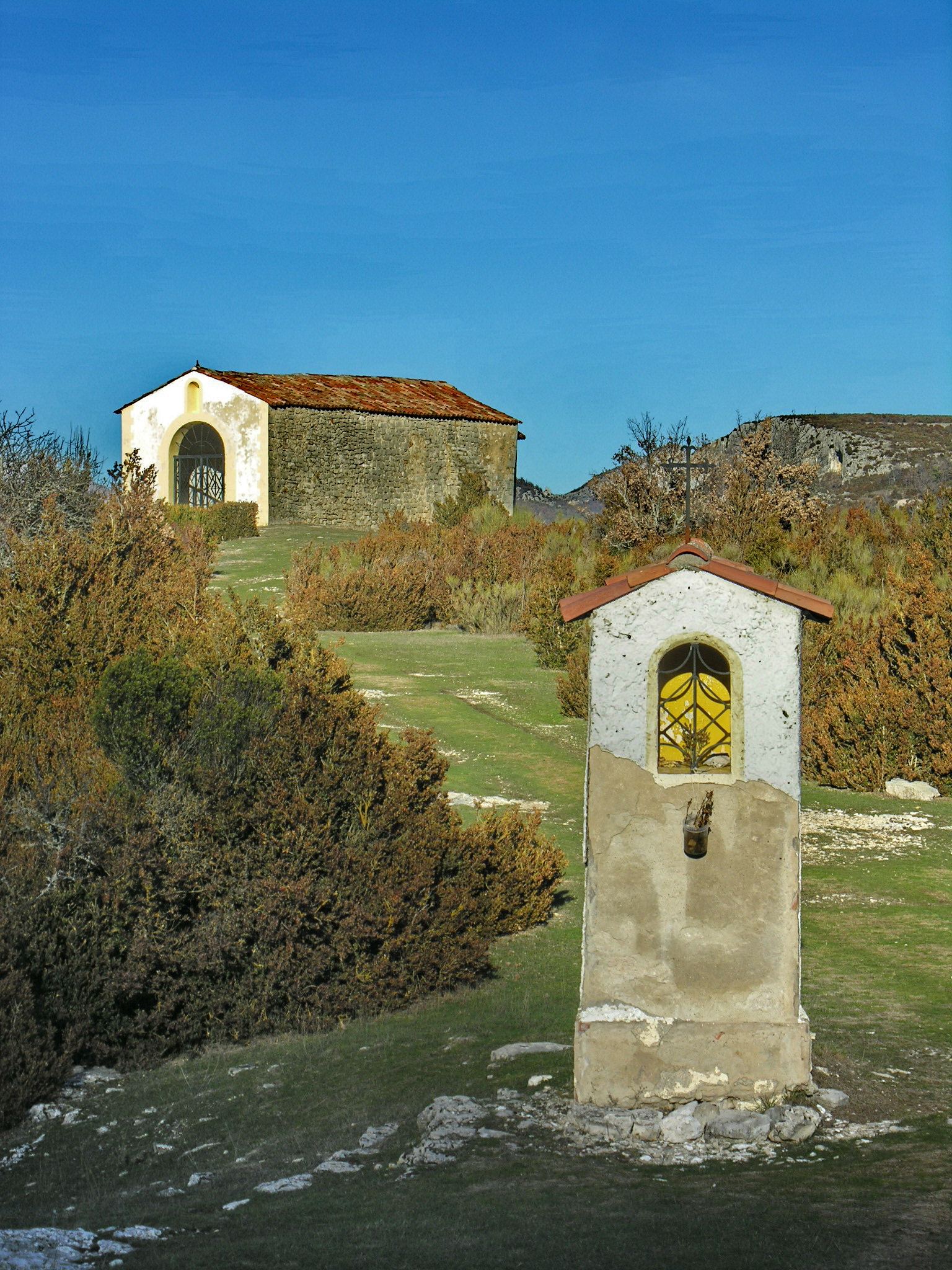 Canjuers military camp (Var), Notre-dame Chapel in Devenset, so-called "la Galline" (Templars)